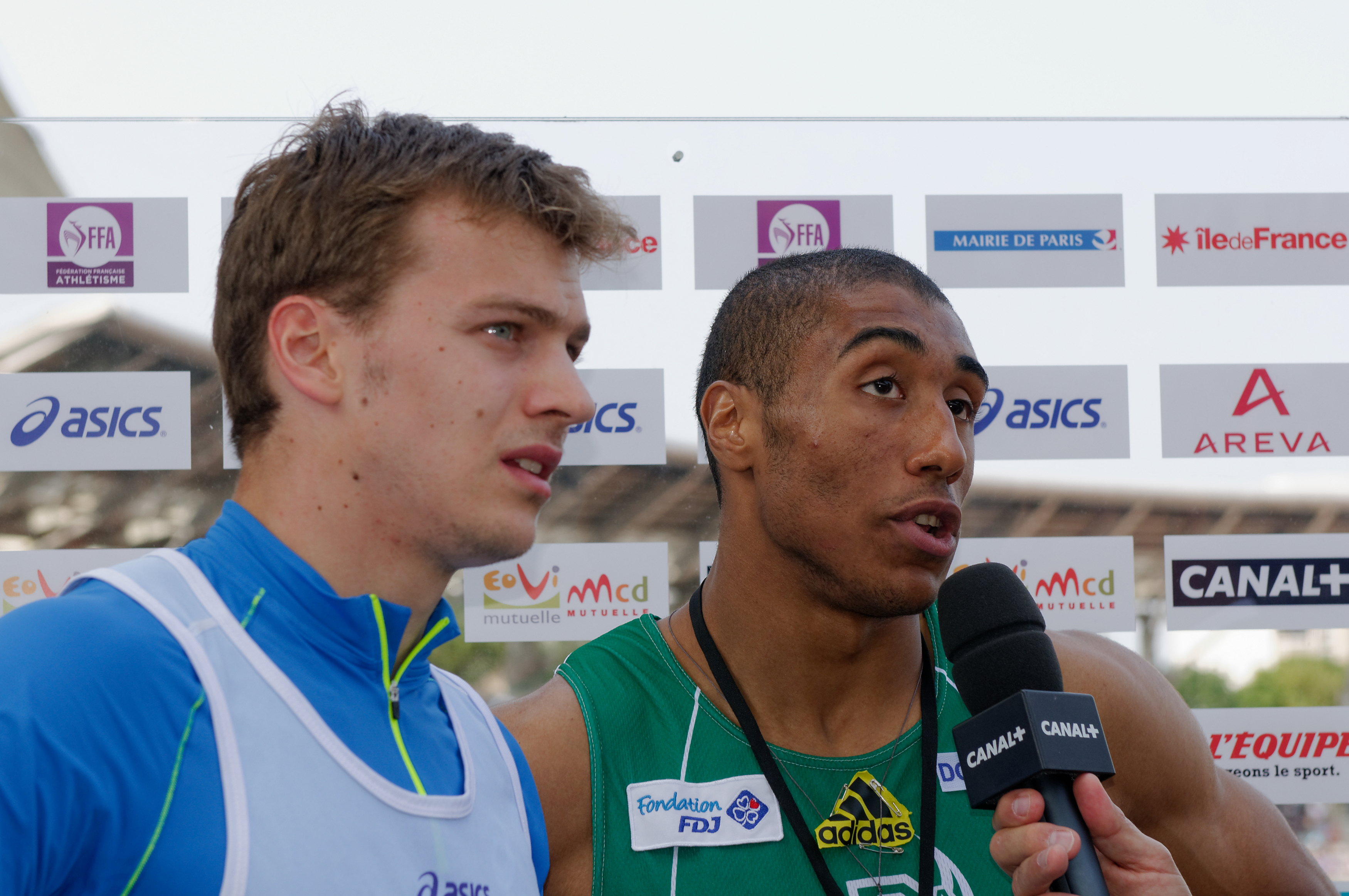 Jimmy Vicaut (R) and Christophe Lemaitre (L) answer the press after the men's 100-metre race during the French Athletics Championships 2013 at Stade Charléty in Paris, 13 July 2013.